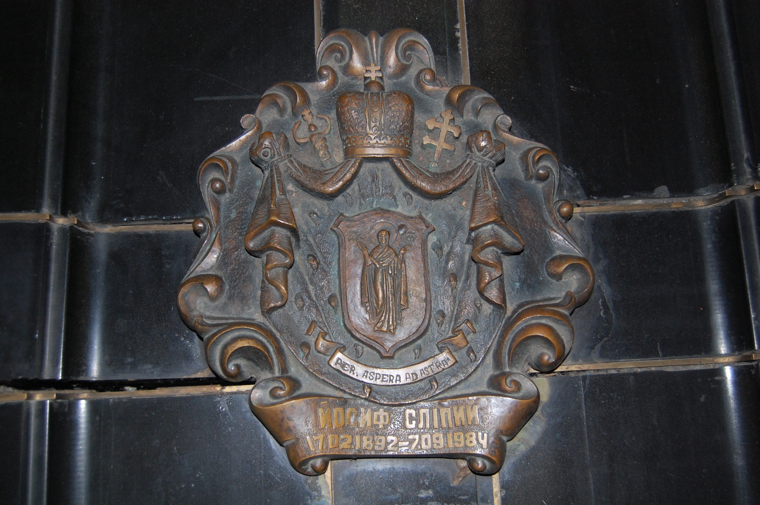 Coat of arms of the Cardinal Josyf Slipyj